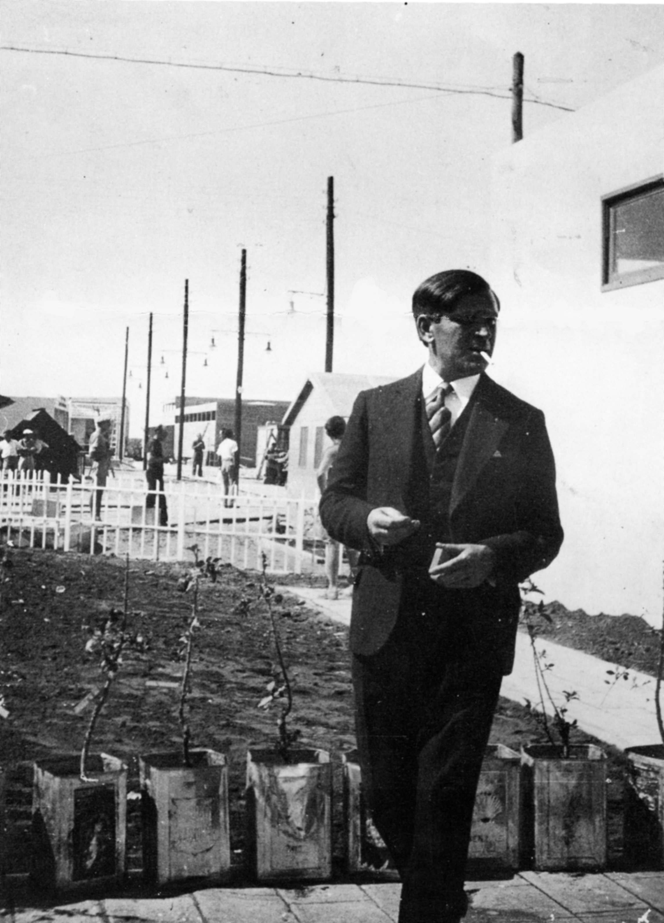 El Hanani at the Lavant Fair, 1930s